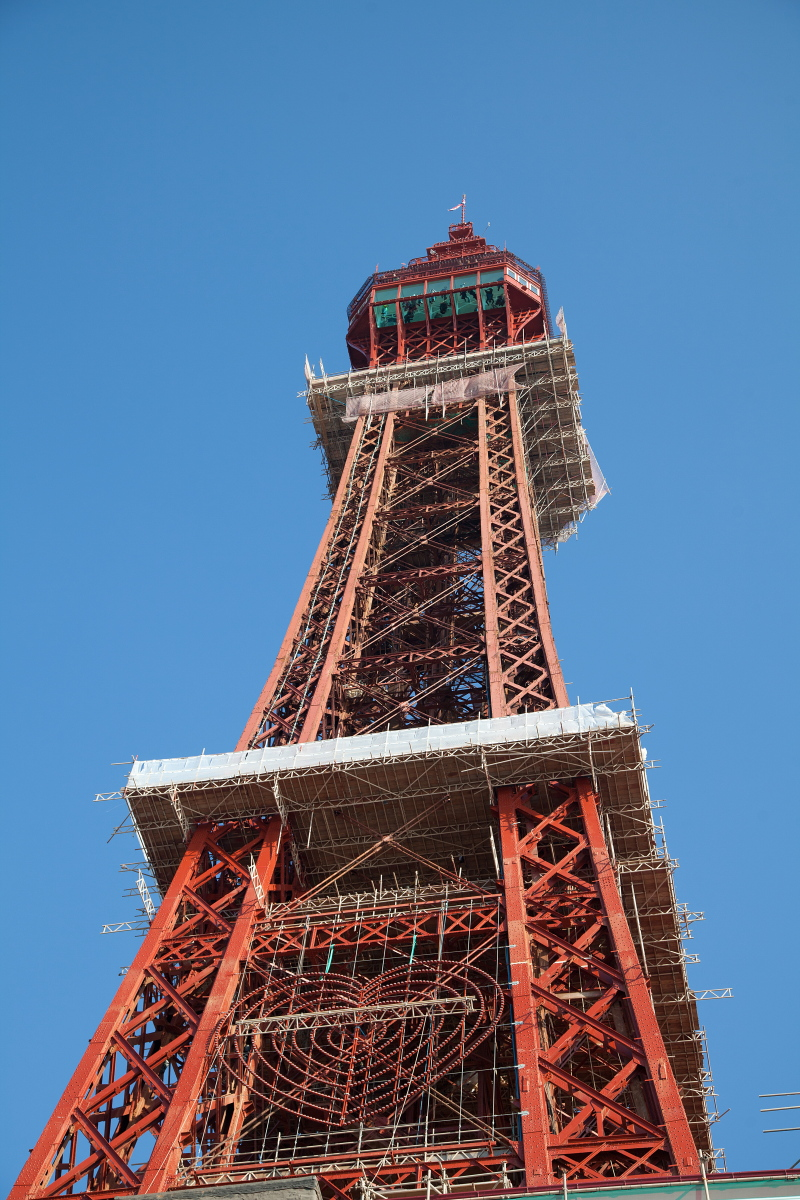 Blackpool Tower